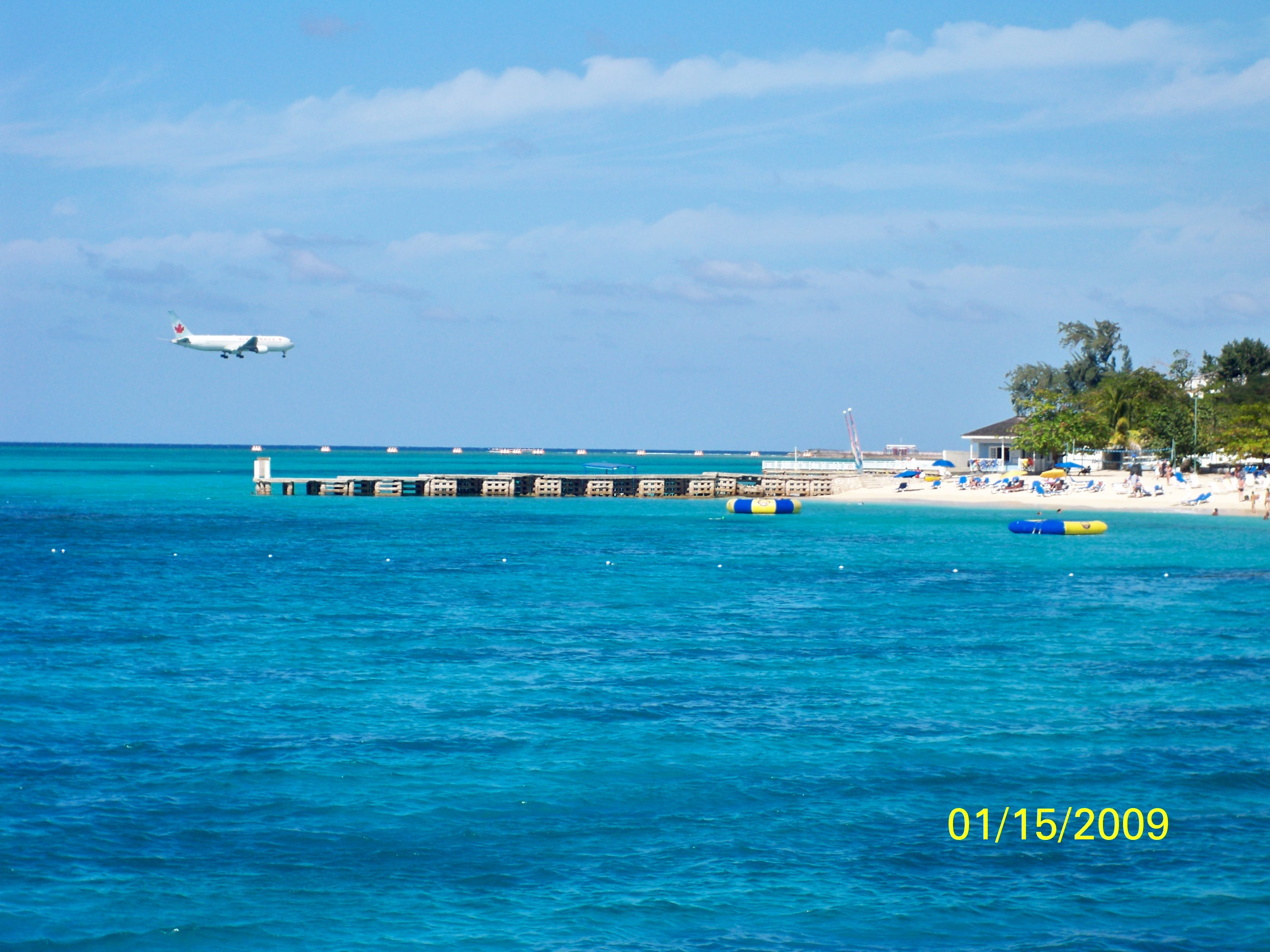 Plane landing at Montego Bay Airport, Jamaica